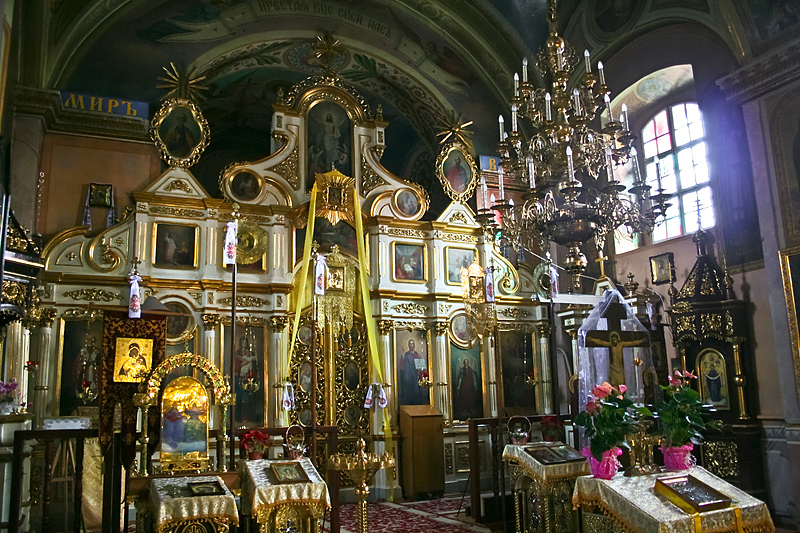 Intercession of the Theotokos church in Lutsk